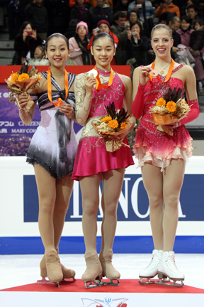 The ladies podium at the 2007-2008 ISU Grand Prix Final. From left: Mao Asada (2nd), Kim Yu-Na (1st), Carolina Kostner (3rd).